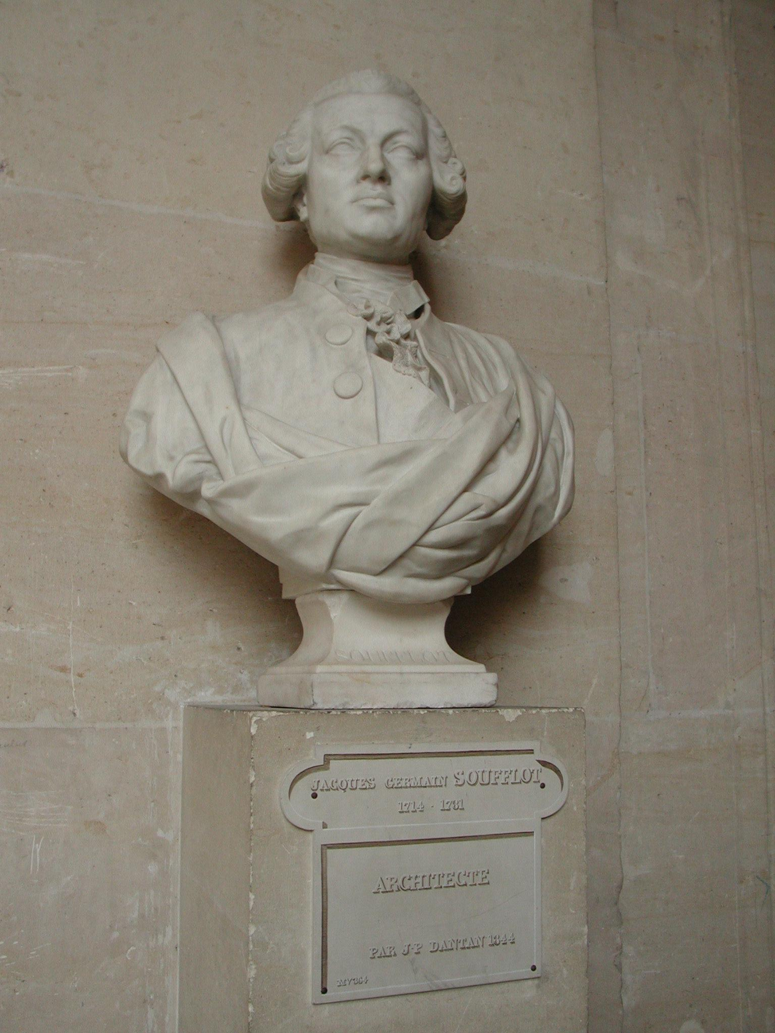 Bust of Soufflot.